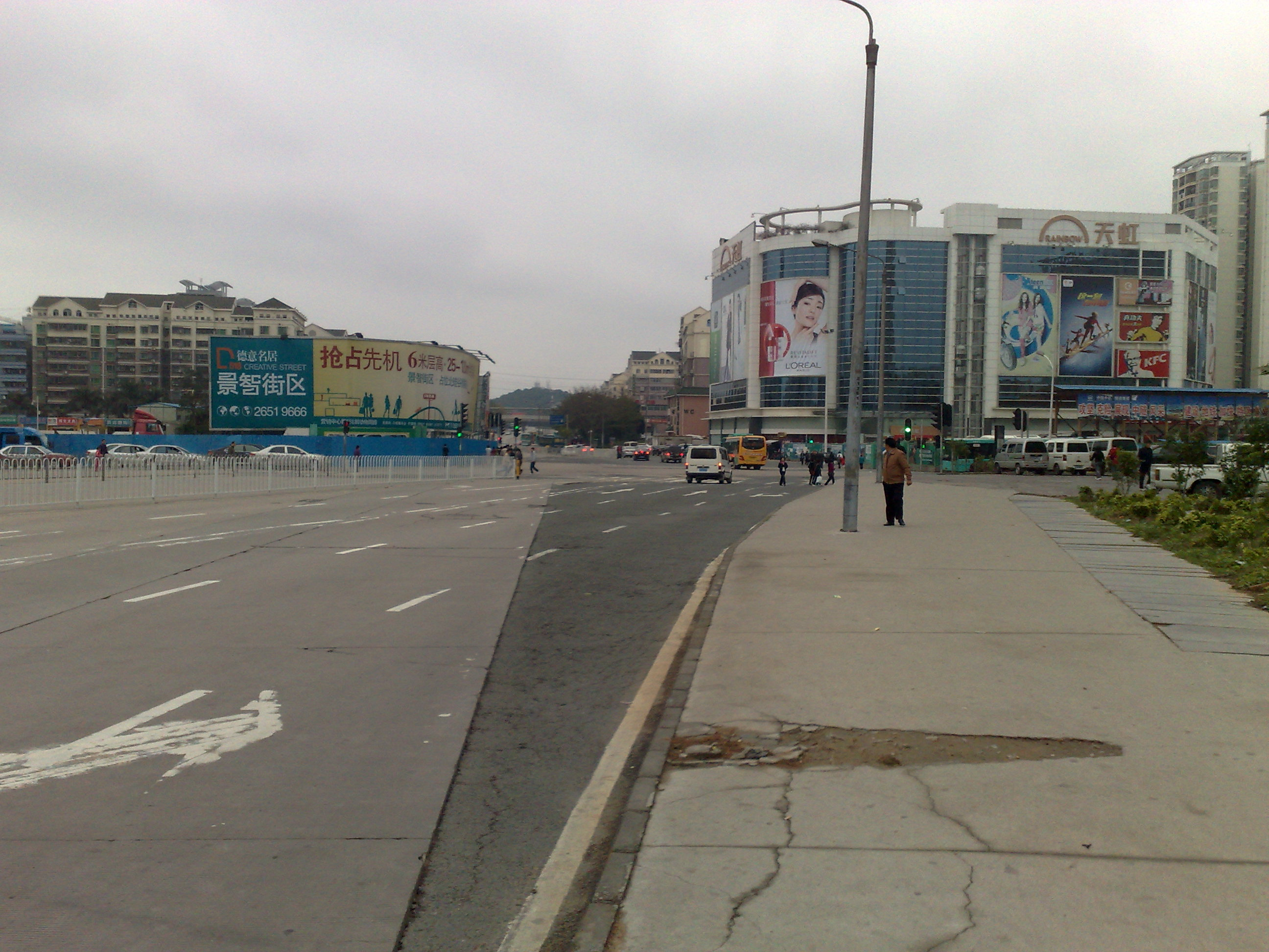 A street in Xili Town, Shenzhen